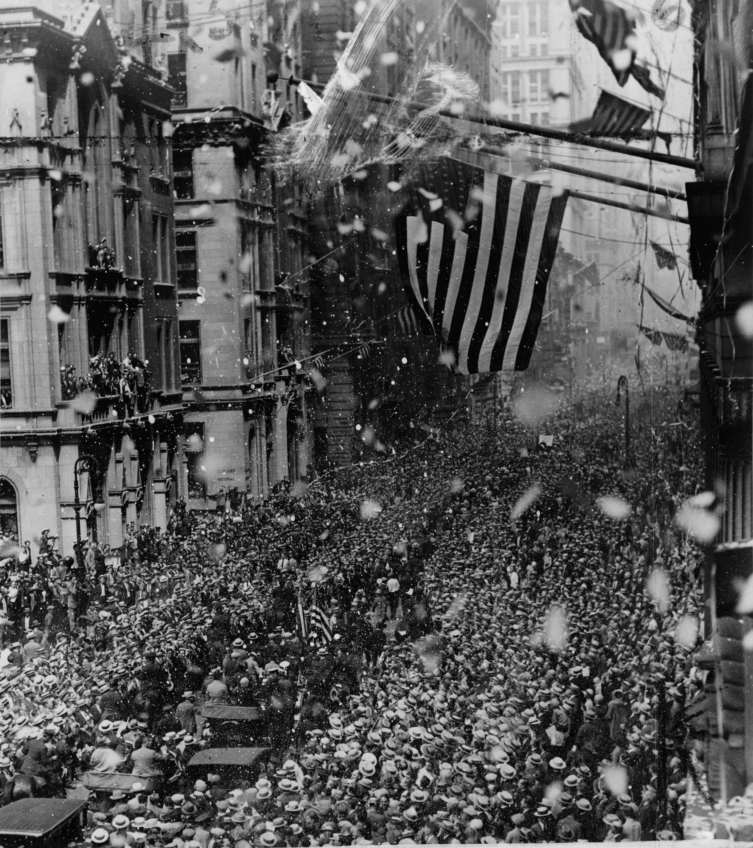 Parade for Gertrude Ederle coming up Broadway, New York City, with large crowd watching / photo by staff photographer.